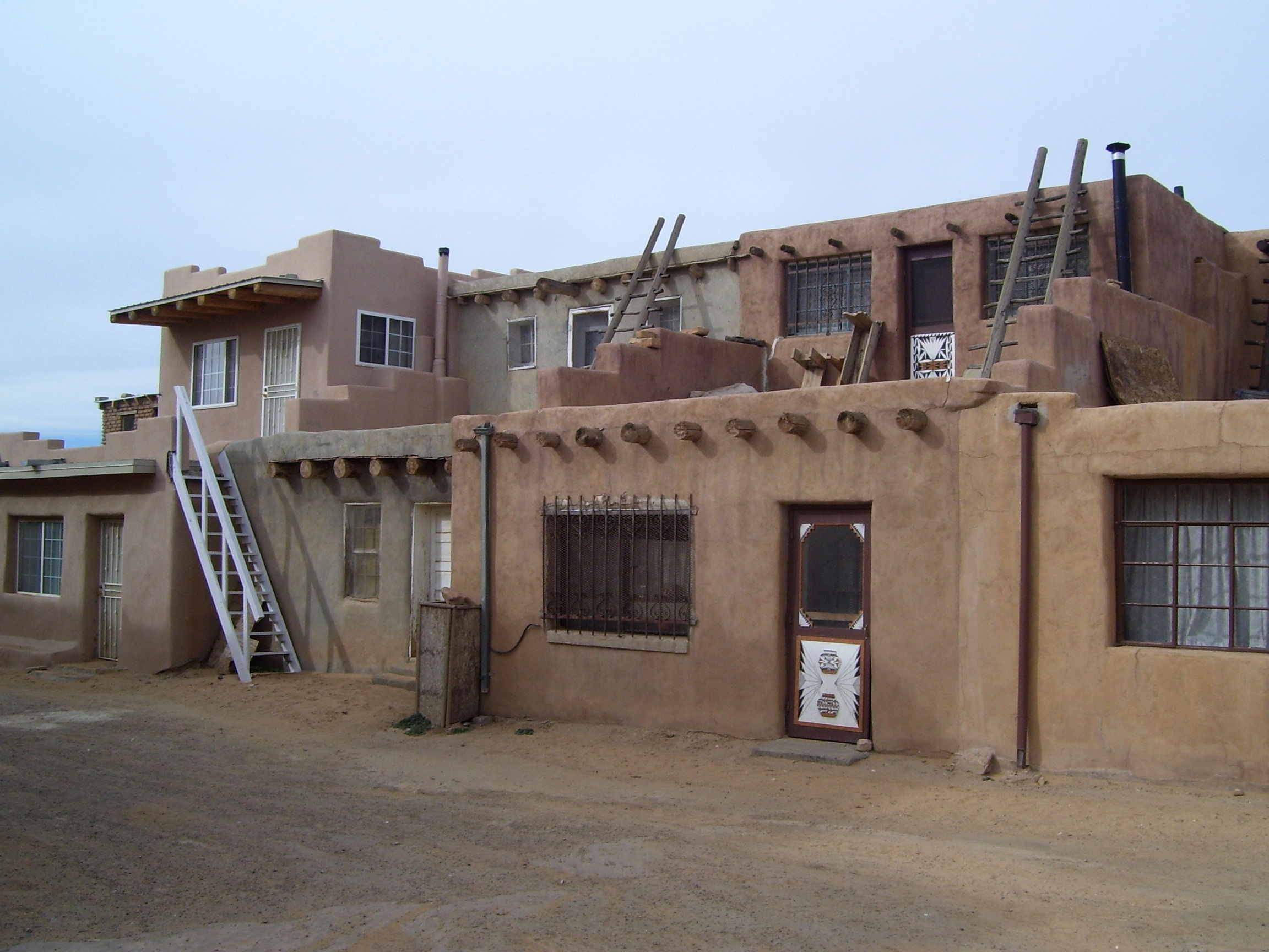 Houses in the Sky City of Acoma Pueblo.